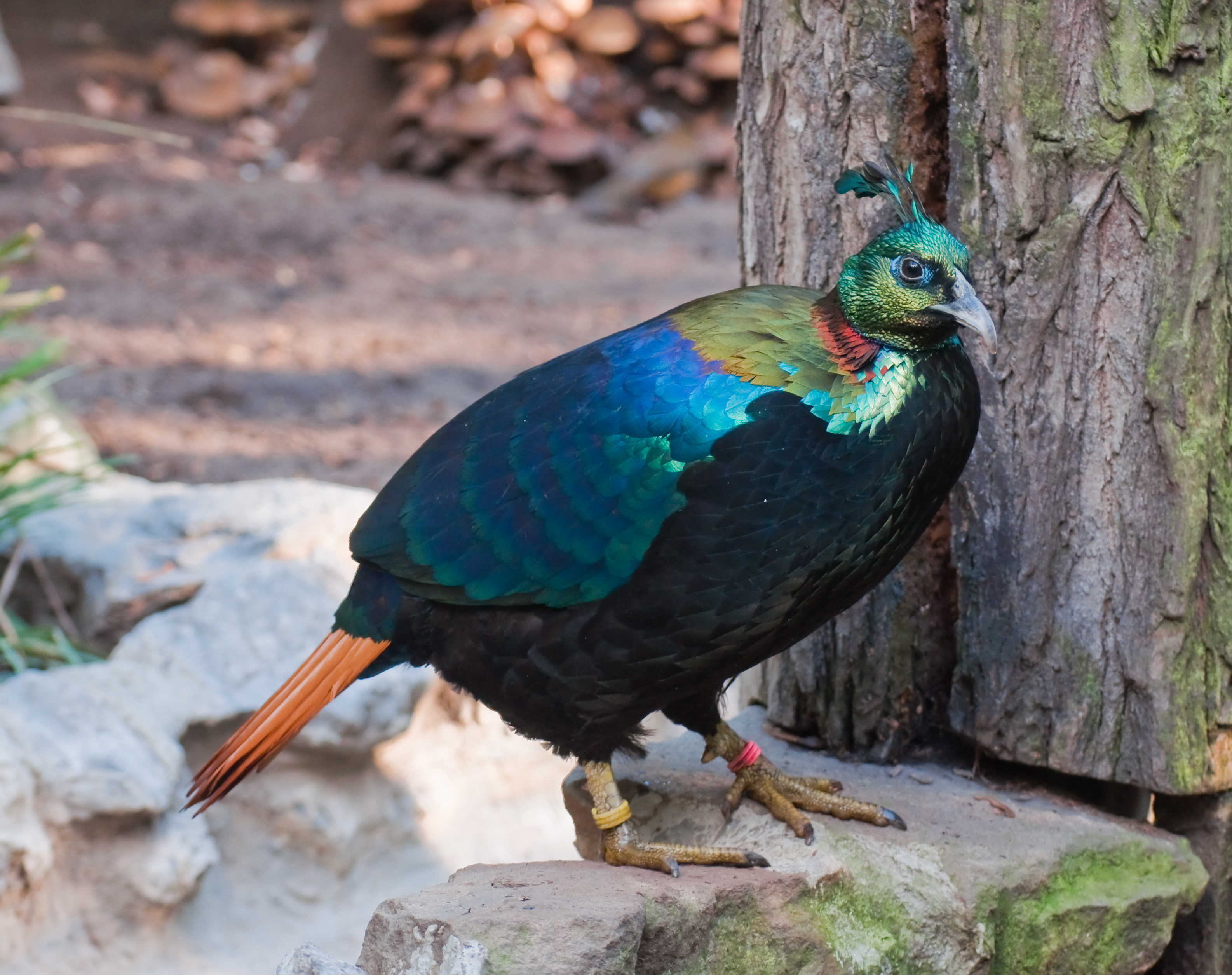 A male Himalayan Monal (lophophorus impejanus) (shot in a German zoo).